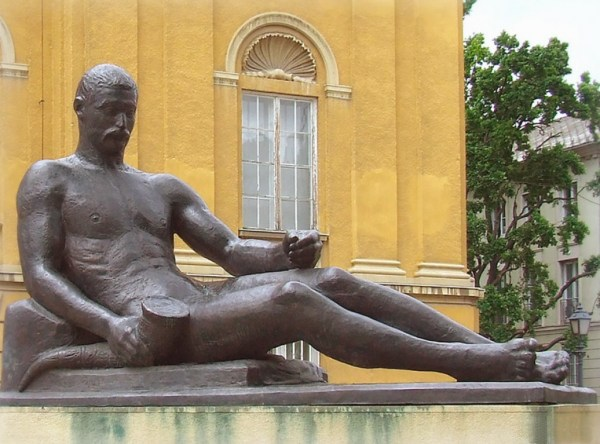 Sculpture of ethnography before Déri Museum in Debrecen